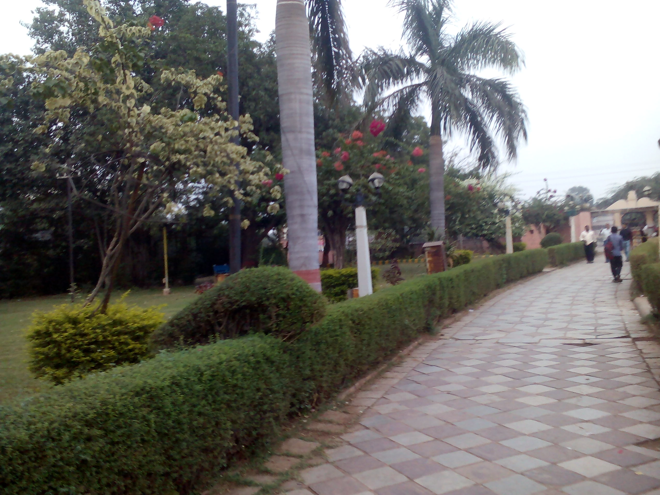 Chambal Garden at Kota